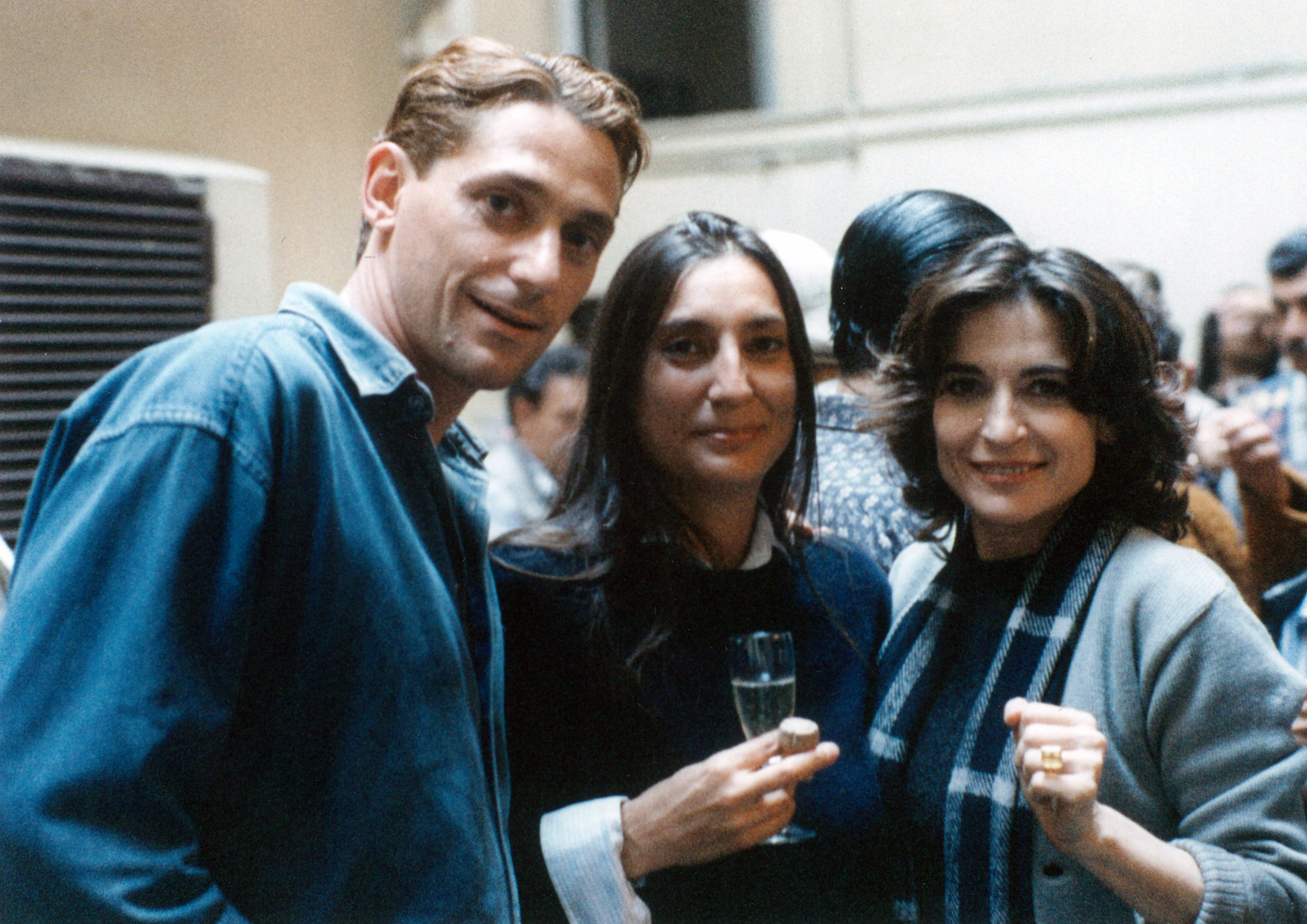 Steve Scott with Lina Sastri on the set of celluloide, Rome Italy 1996